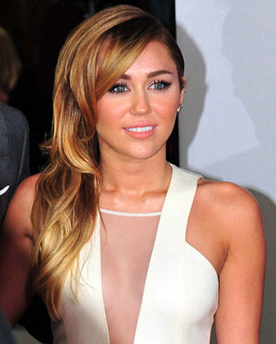 Miley Cyrus at the 38th People's Choice Awards, Red Carpet 2012.